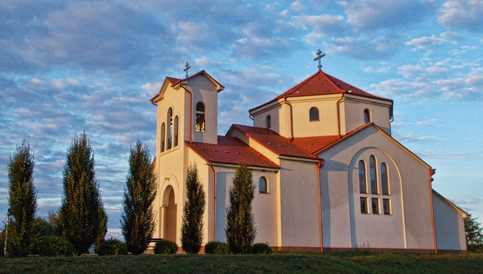 The Greek Catholic Church of Miskolc-Szirma, was built in 2011.